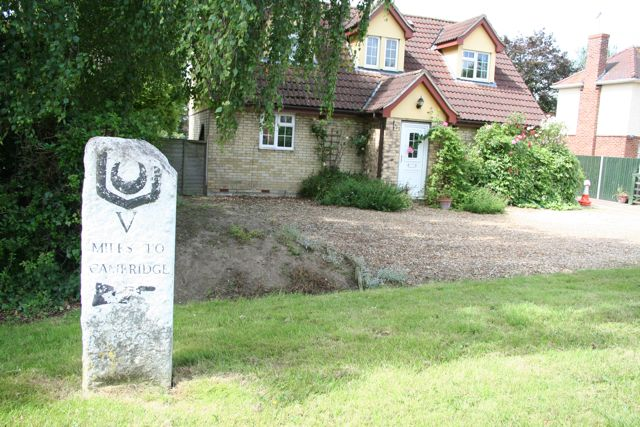 Milestone on the Harston Road The milestones on the Barkway Road, leading South-West from Cambridge towards London are the famous Trinity stones set up in 1728-1732 under the bequest of Dr William Mowse, a Master of Trinity Hall, Cambridge. This somewhat battered stone, at Harston, tells us it is 5 miles to Cambridge.